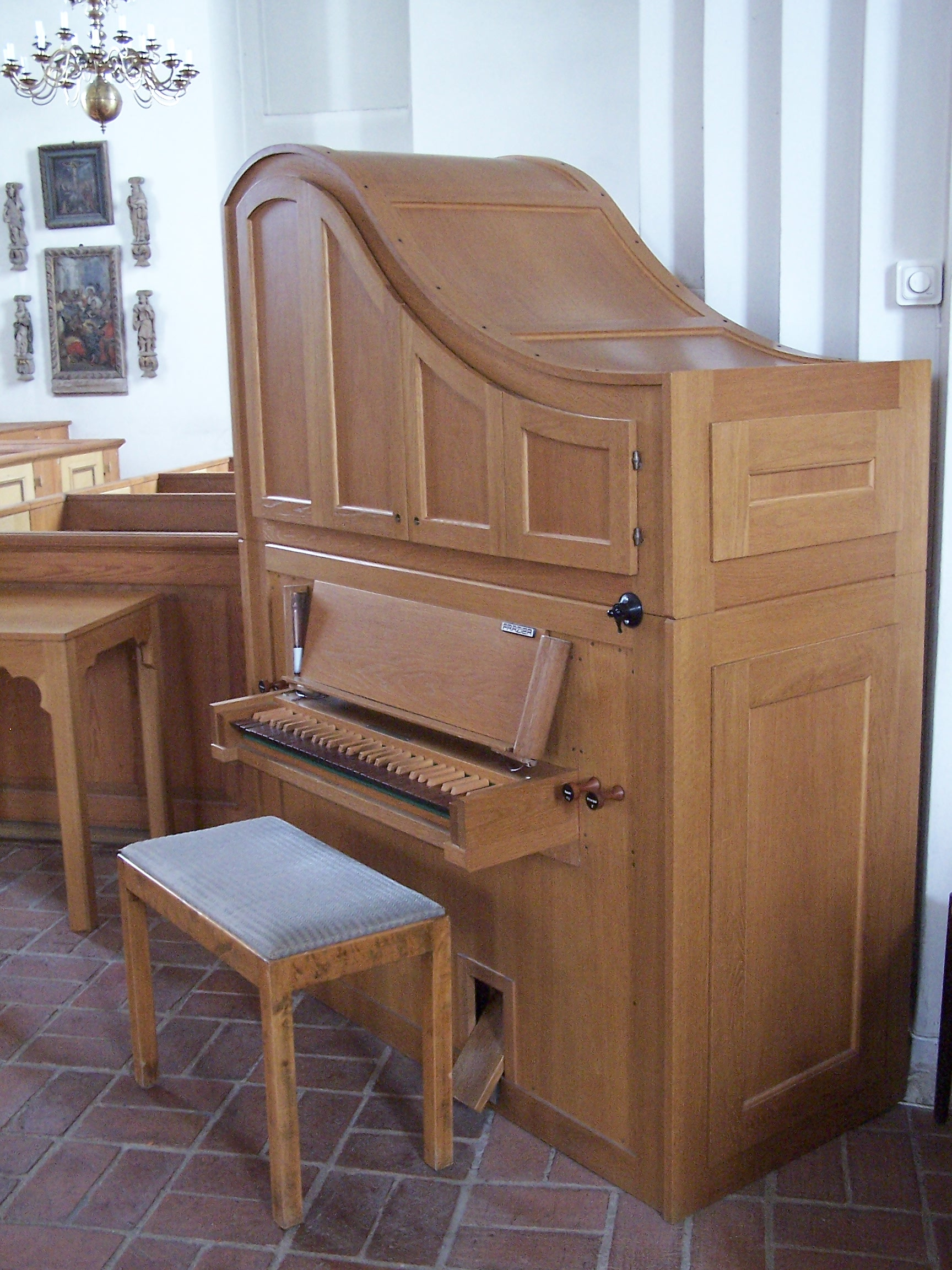 Chamber organ in Husie church, Sweden